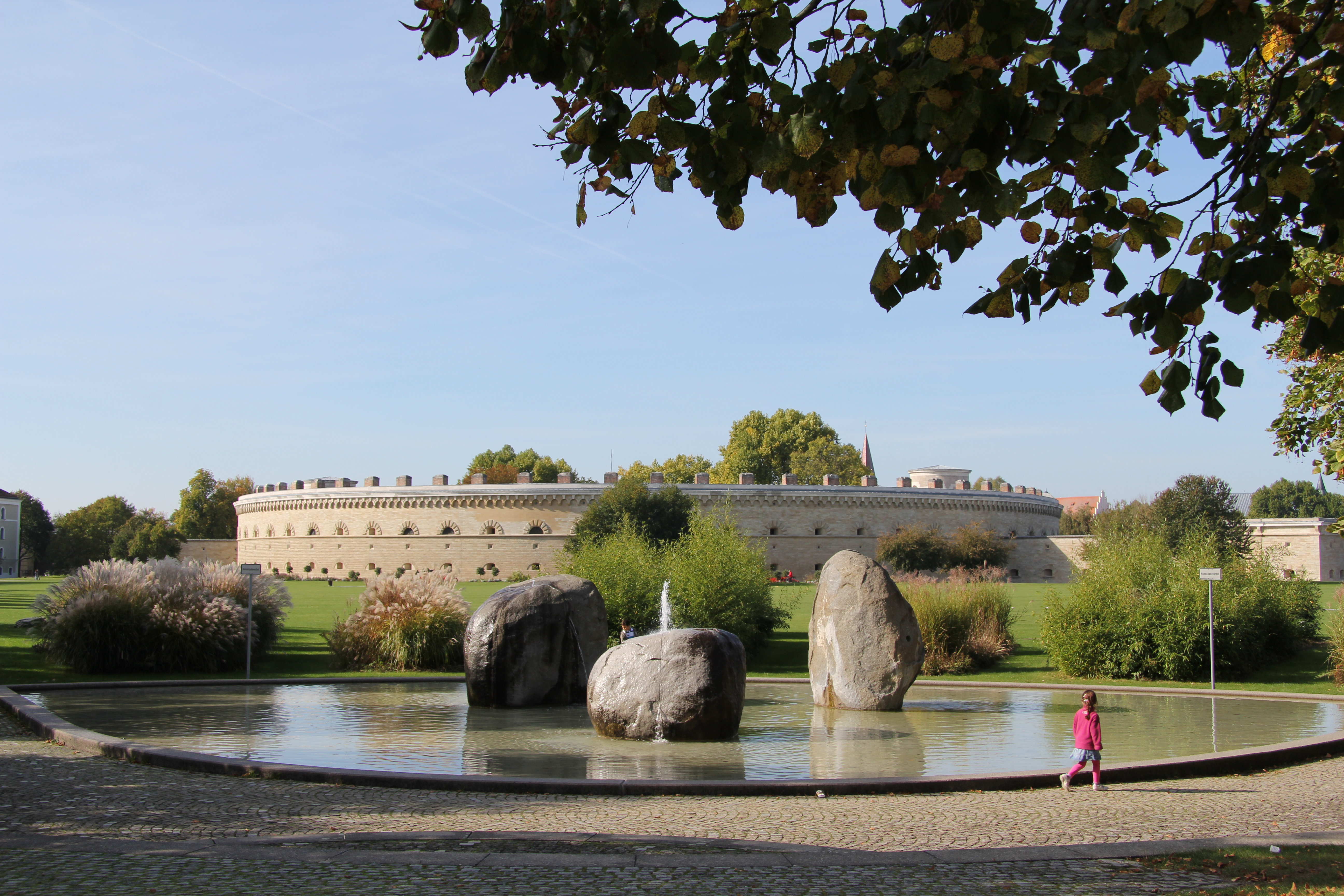 Ingolstadt, Reduit Tilly, front side behind fountain and lawn of Klenzepark